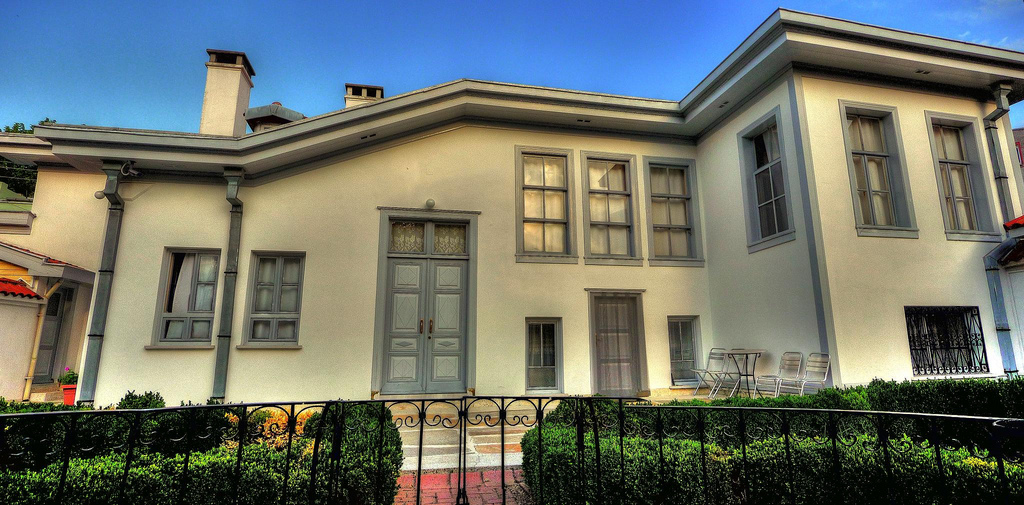 Without minarets... not photoshop... closeup picture.